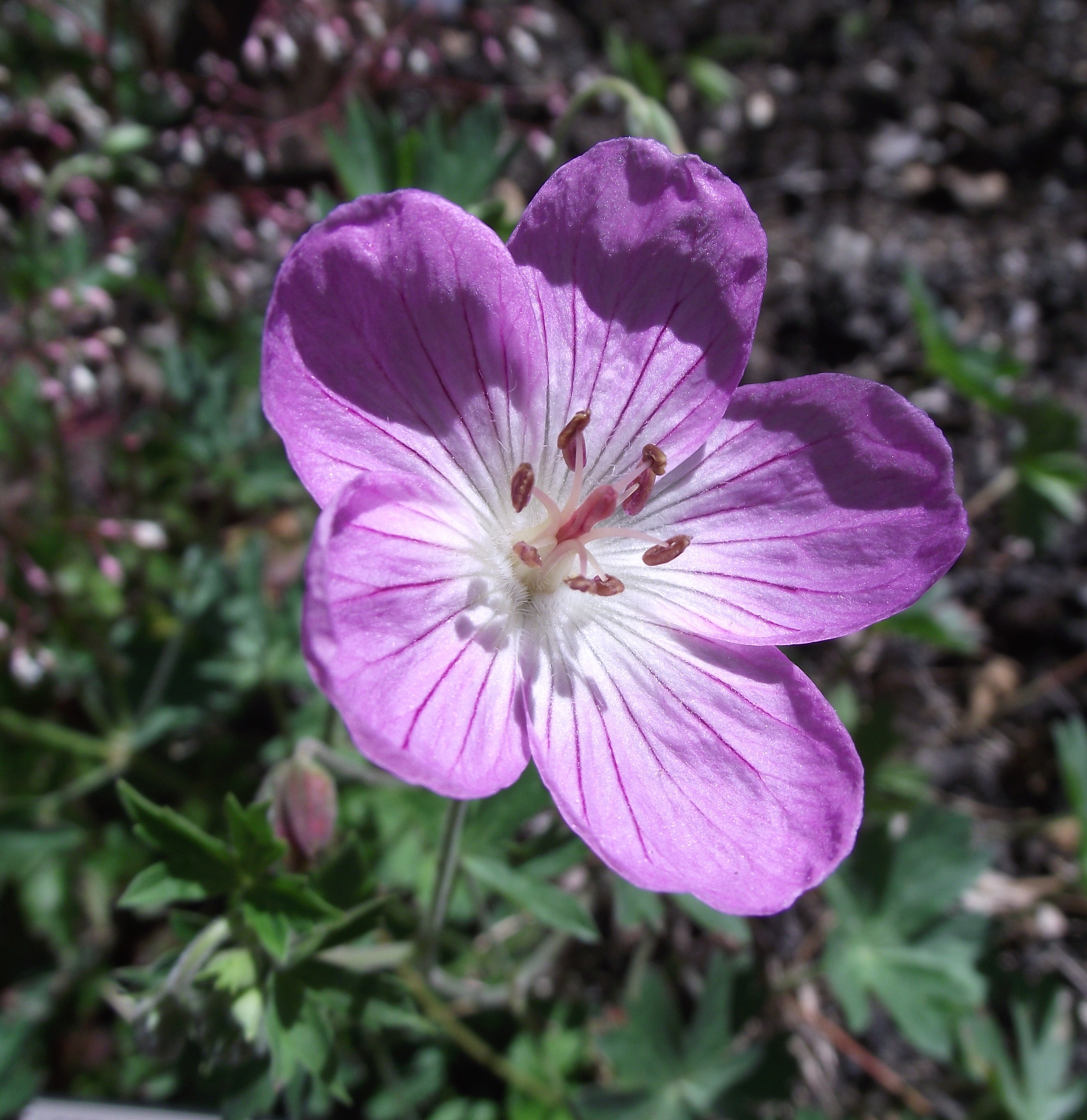 Geranium californicum at the UC Botanical Garden, Berkeley, California, USA. Identified by sign.